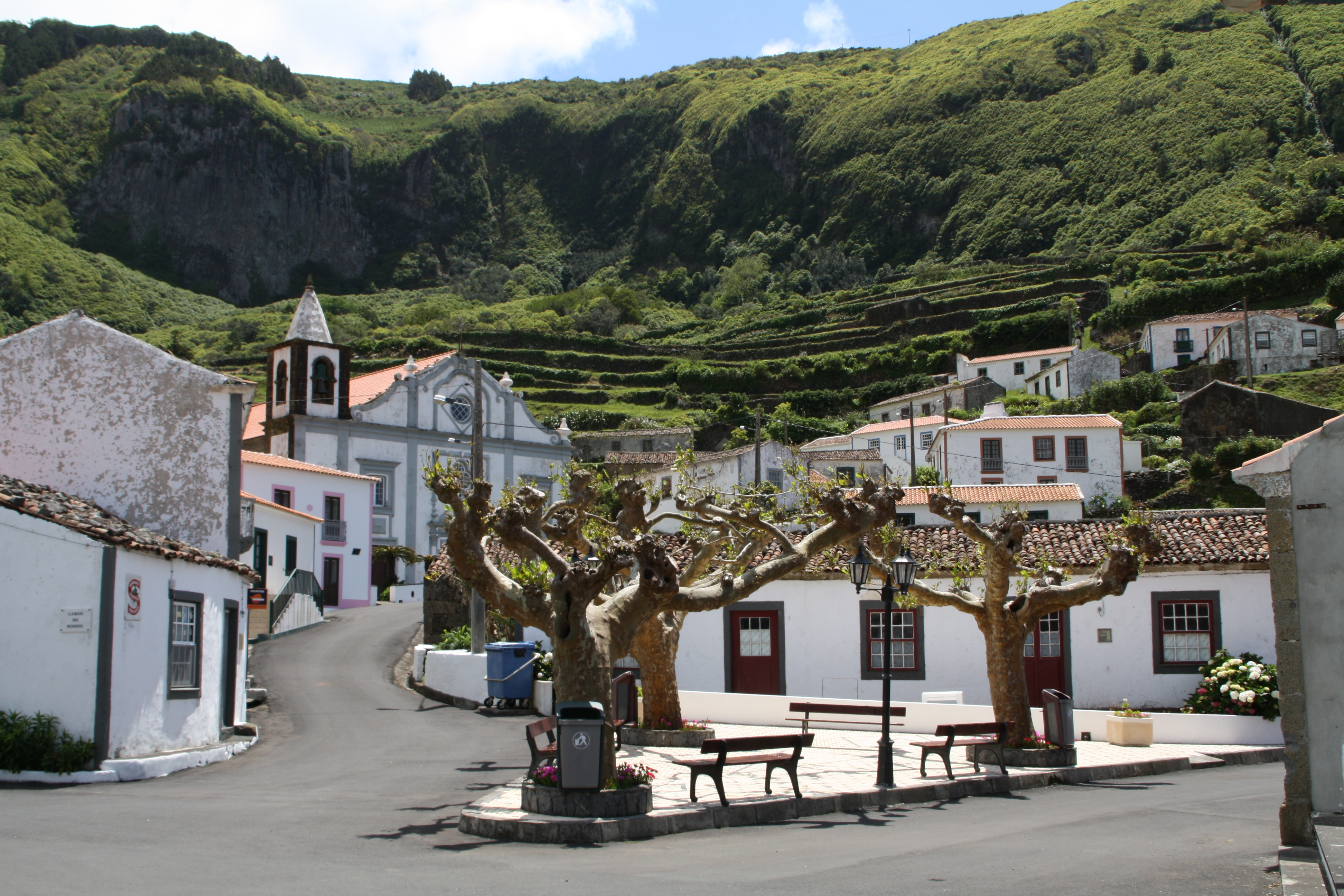 Azores, Flores, Fajãzinha, Rossio and church Igreja Nossa Senhora dos Remedios